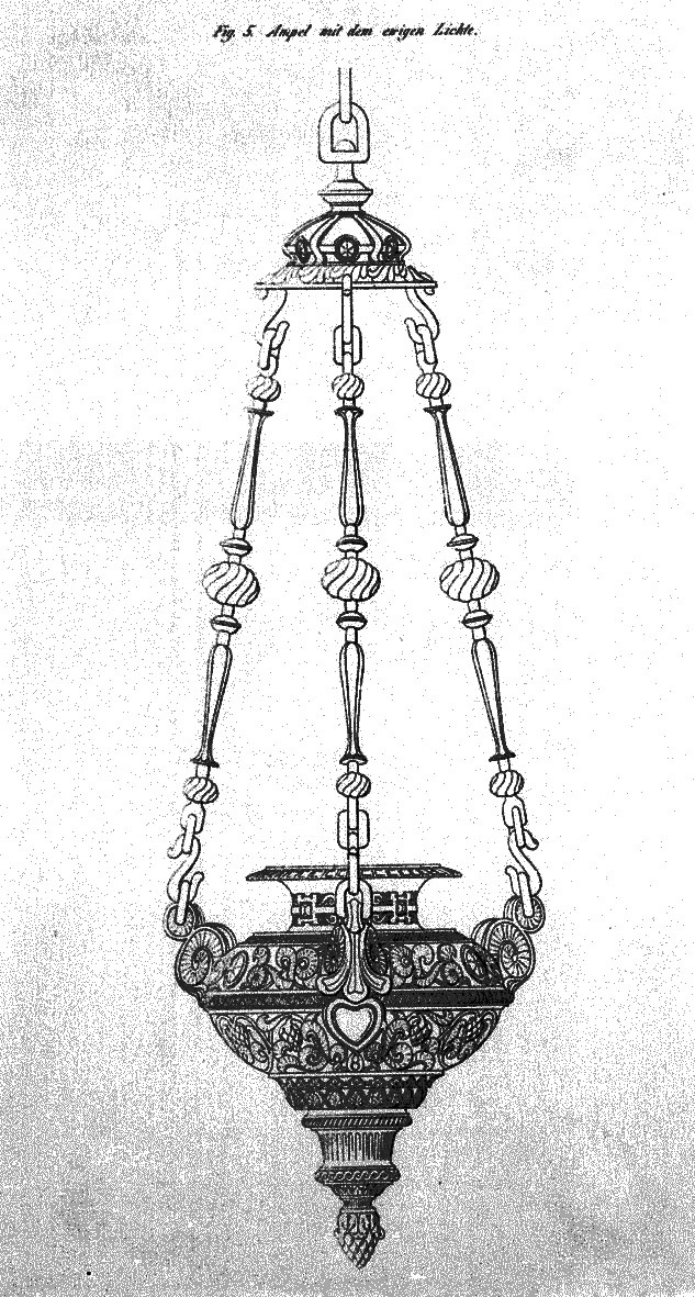 Alte Synagoge Dresden, Lampe mit dem ewigen Licht - Ner Tamid